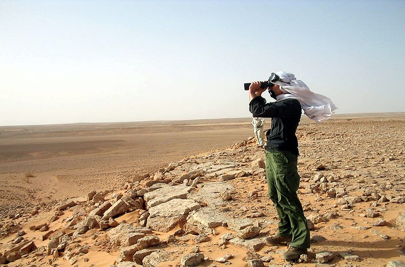 Erosion area in the Hammadah al Hamra